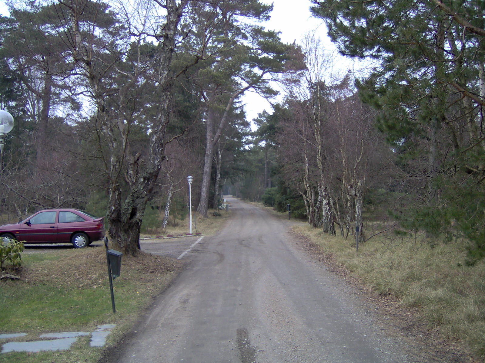 Village road in Ljunghusen Source: taken by user march 23rd 2005